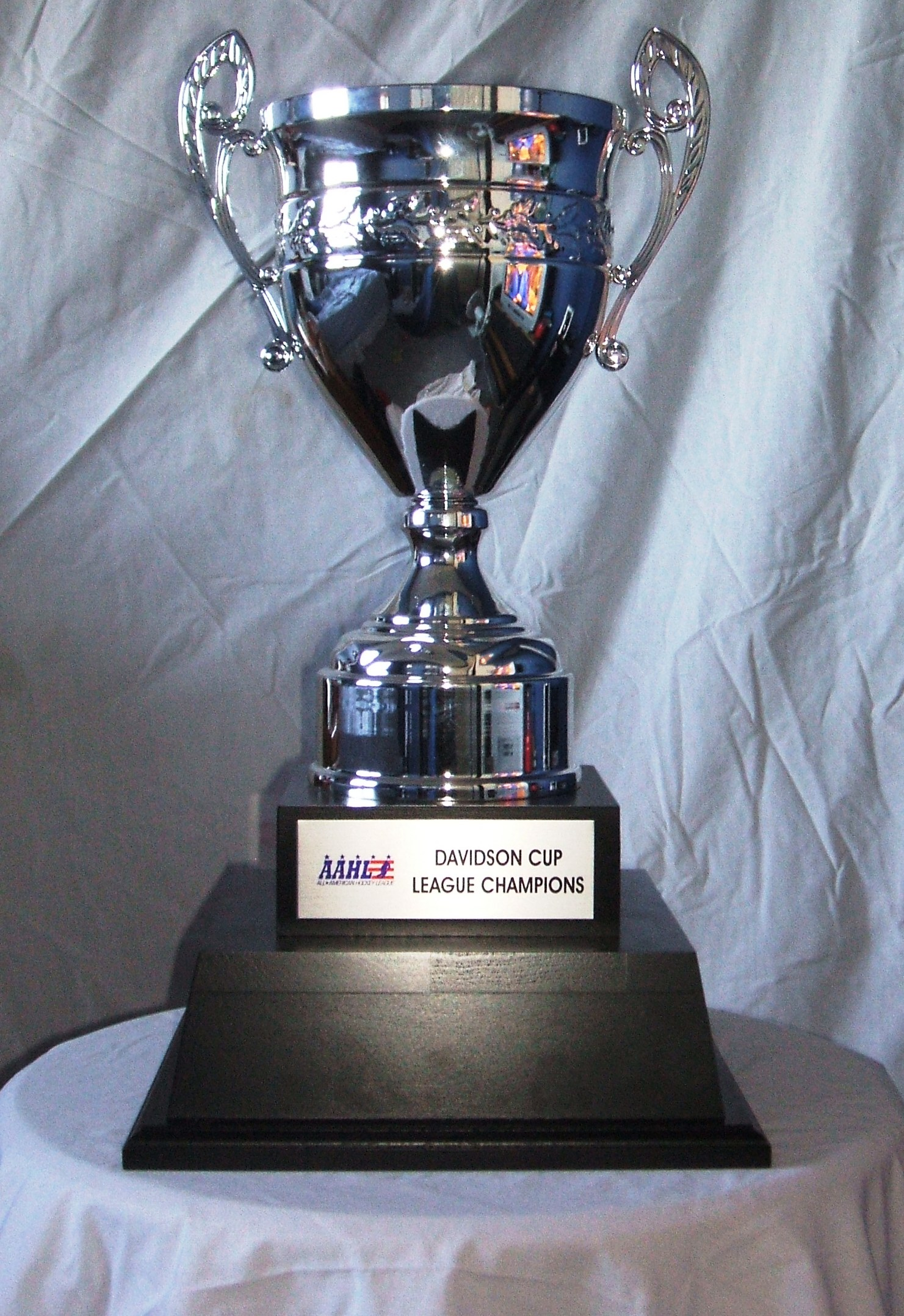 Davidson Cup